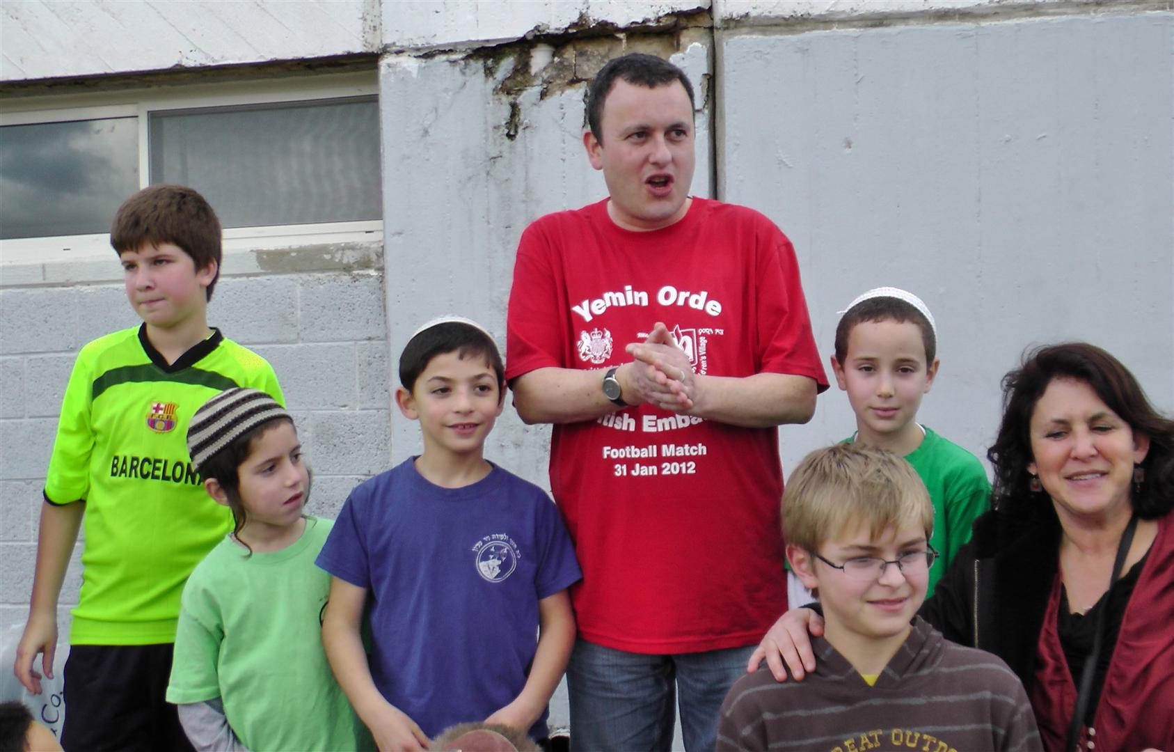 Ambassador Matthew Gould getting ready for the football match British Embassy in Israel